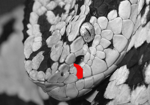 Bothriechis aurifer, BW closeup indicating lacunolabial scale.